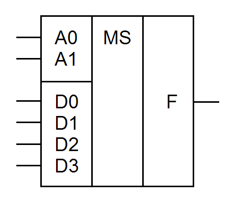 multiplexer pictorial symbol